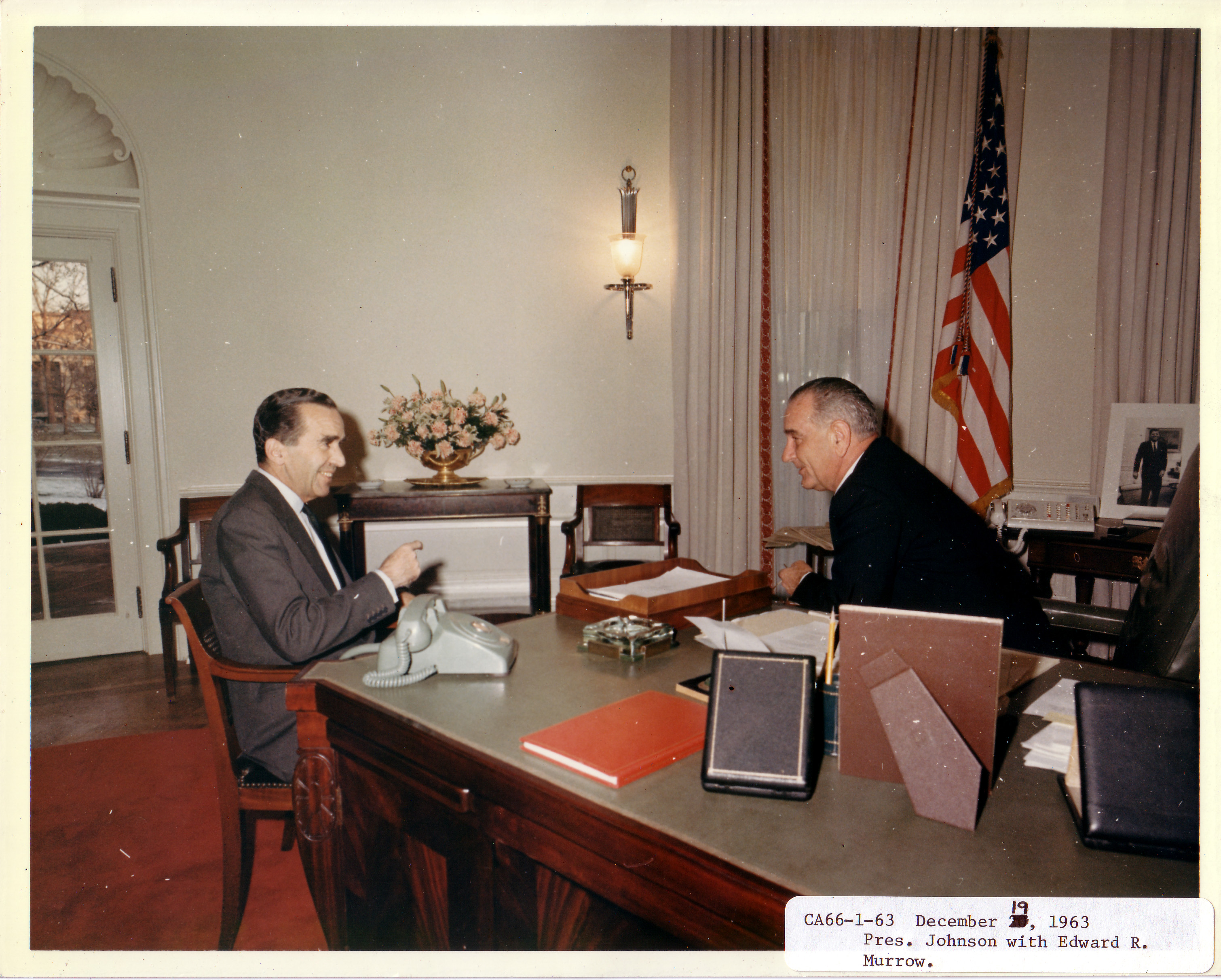 President Johnson meets with Edward R. Murrow in the Oval Office